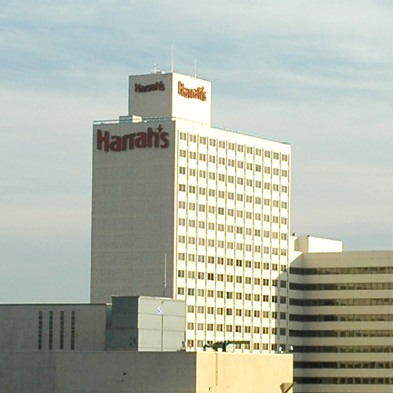 Harrah's Reno